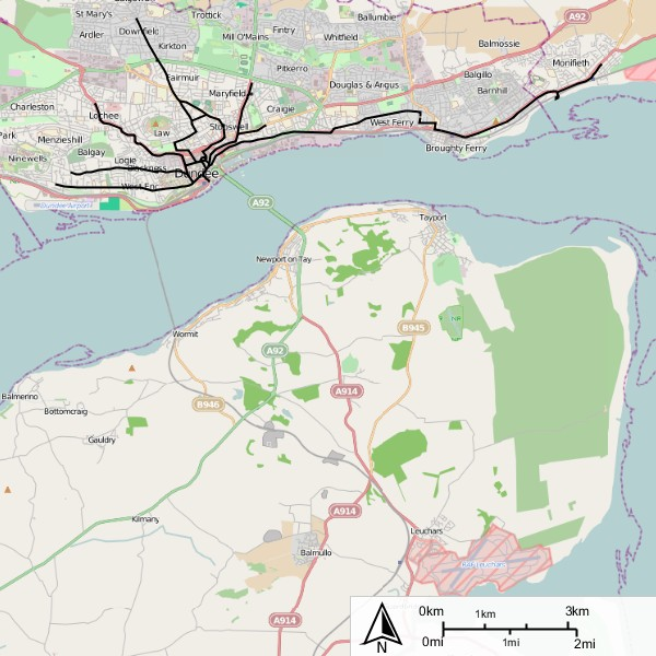 Dundee Tramways Legend: *━━━ Primary lines *━━━ Secondary lines *━━━ Tertiary lines